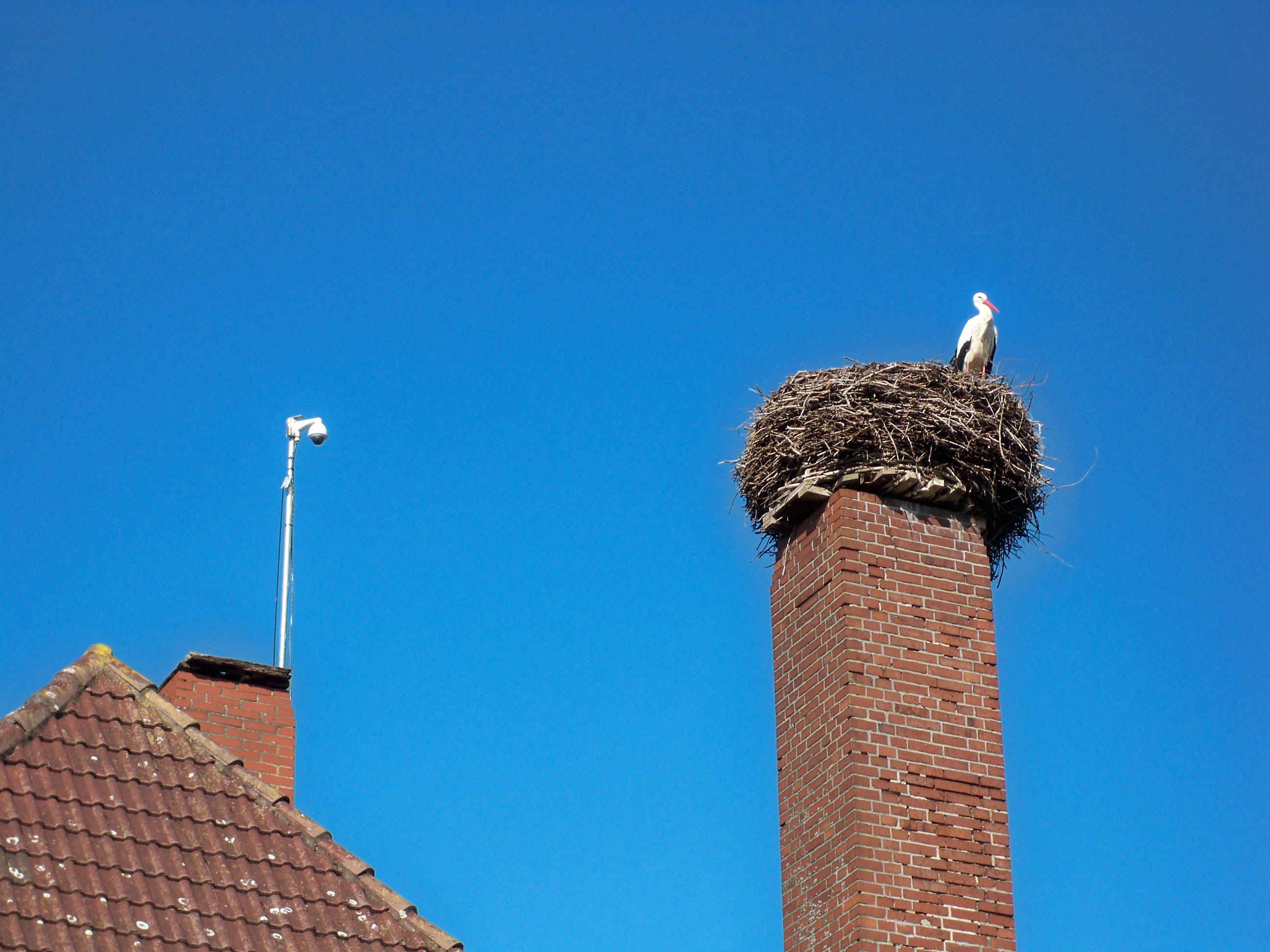 Wolfsburg-Warmenau, Lower Saxony, nest of white stork (Ciconia ciconia)